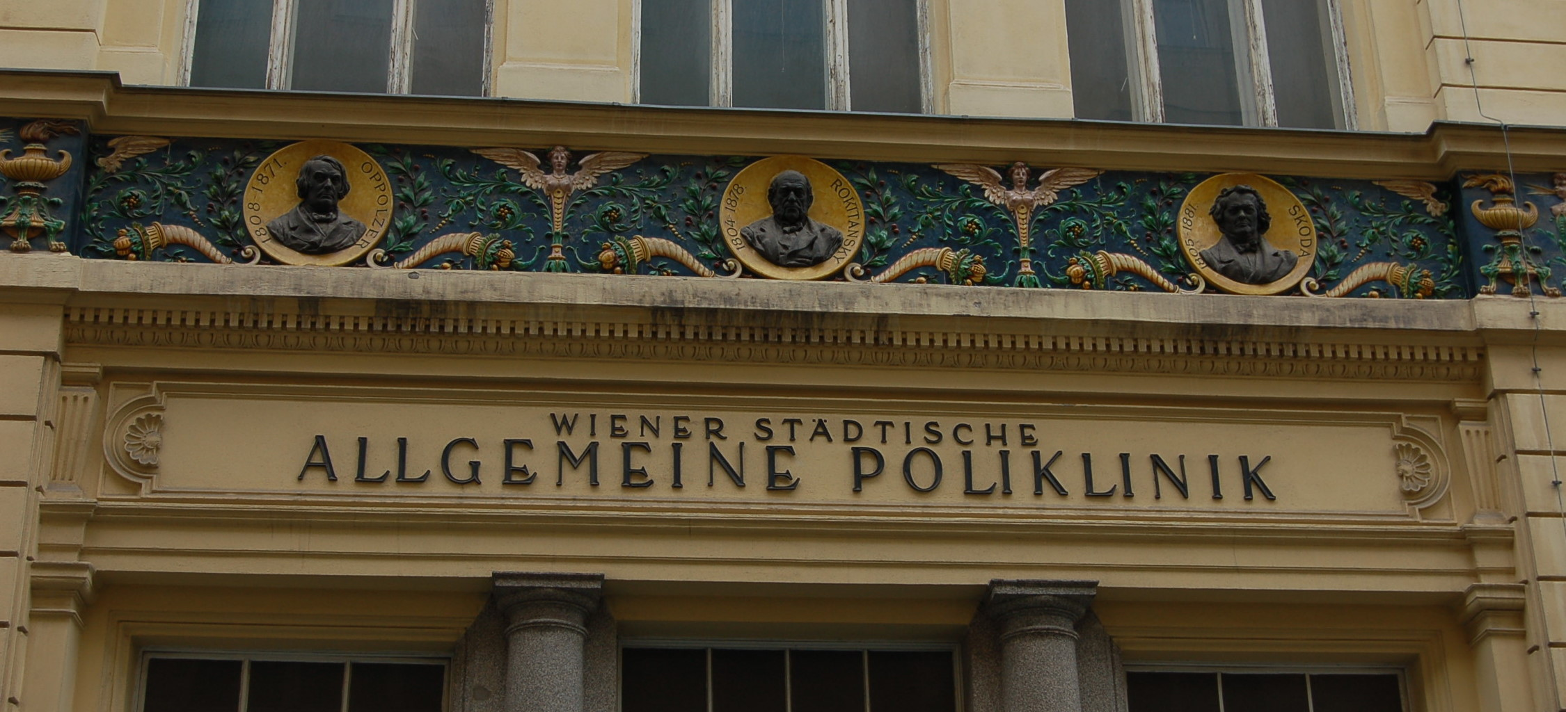 Placard above the entrance of former Allgemeine Poliklinik hospital in Vienna's 9th district with portraits of famous physicians above.